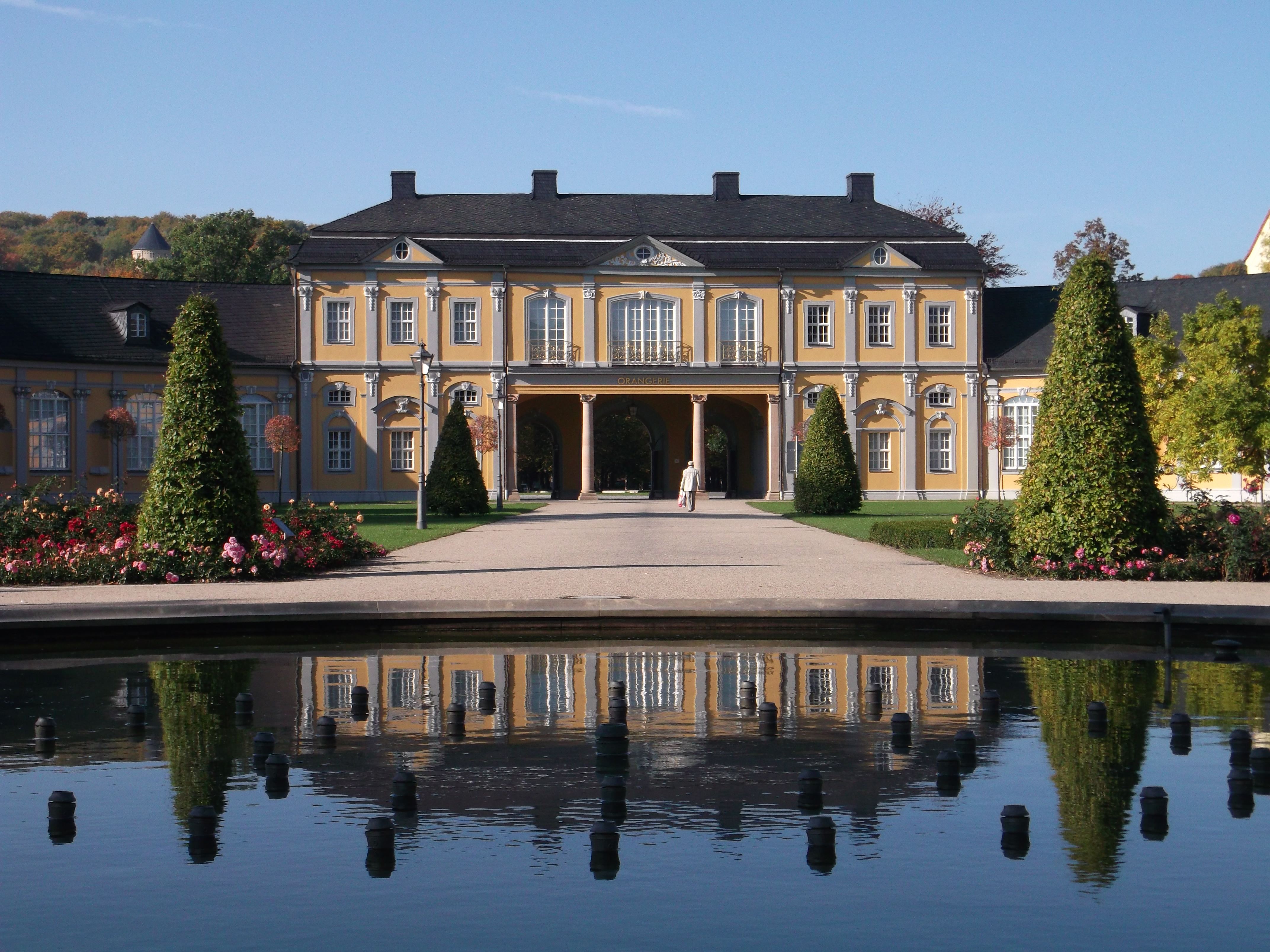 Küchengarten and Orangery in Gera, Germany, in October 2012